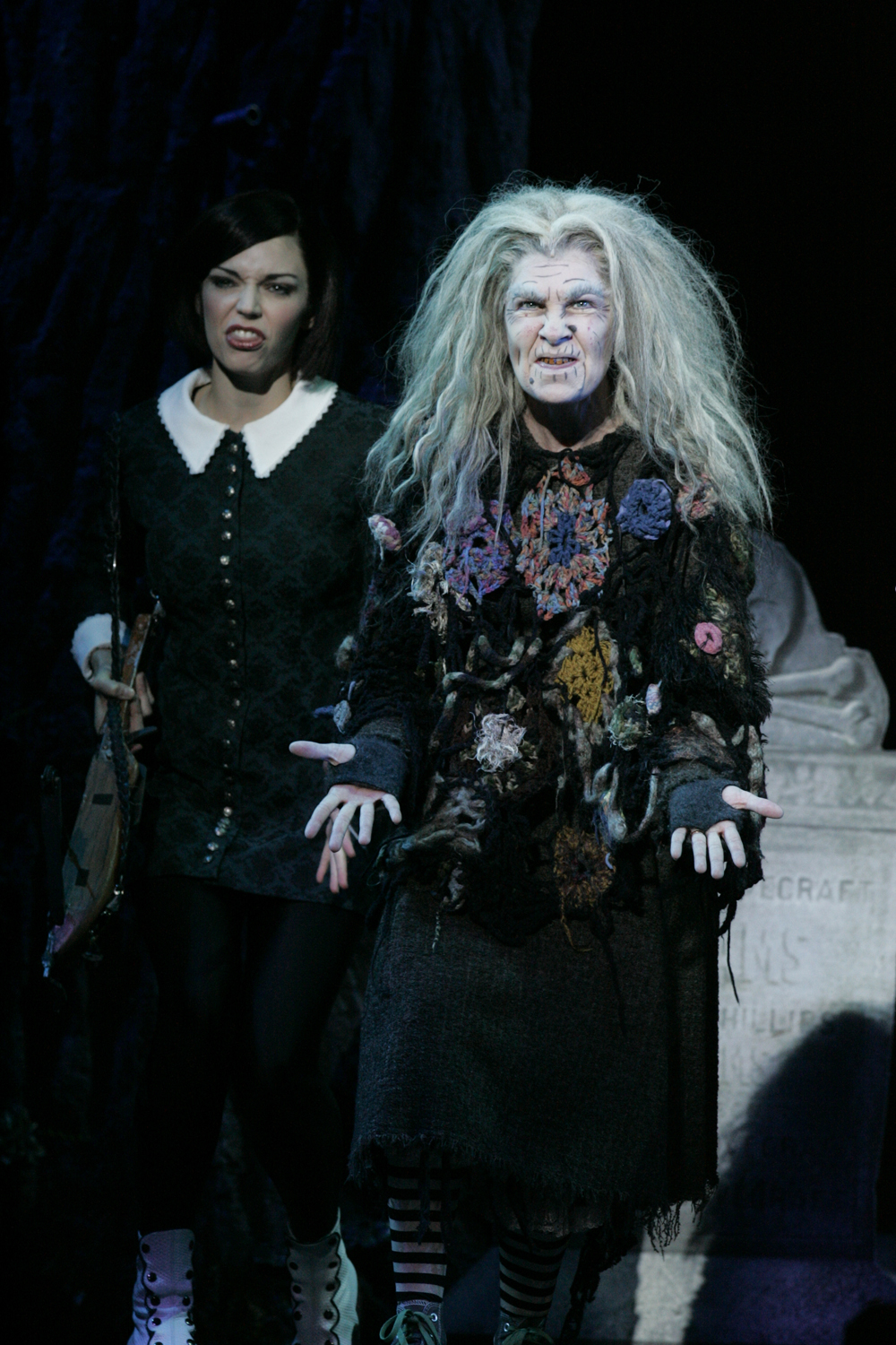 The Addams Family Media Event